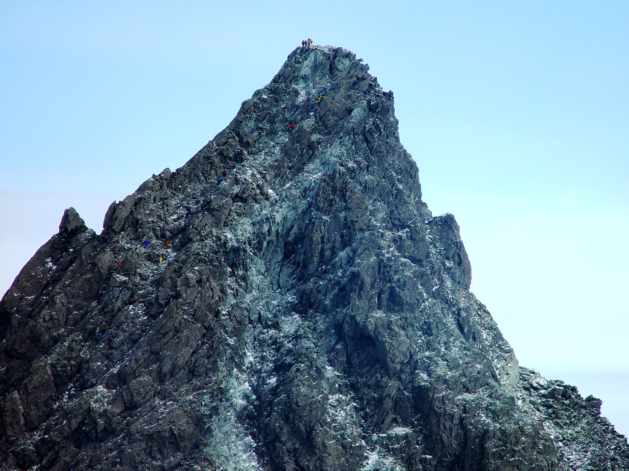 Top of Mount Yari from Mount Obami in Hida Mountains, Japan.